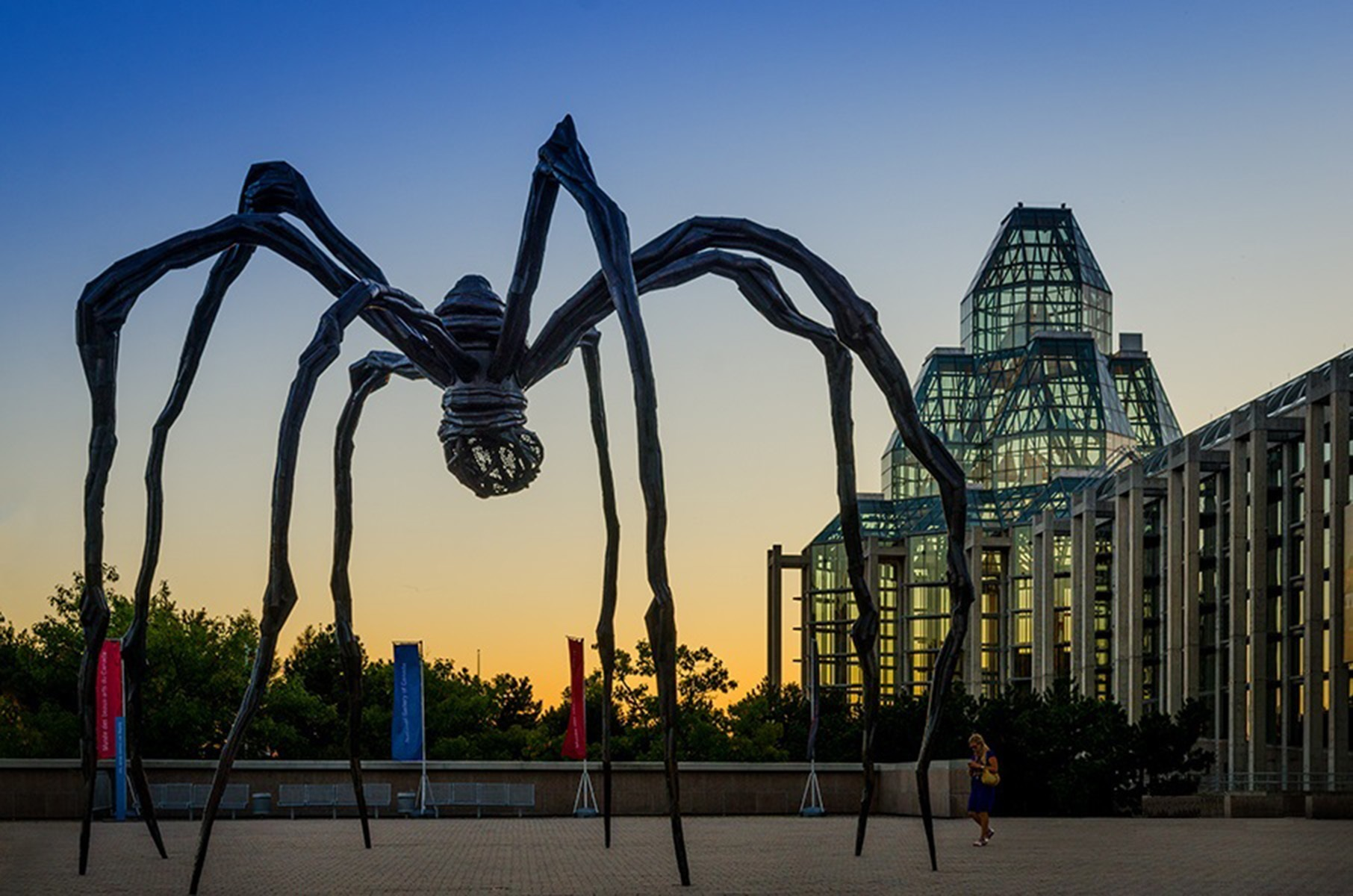 Sculpture of the spider mother in Canada